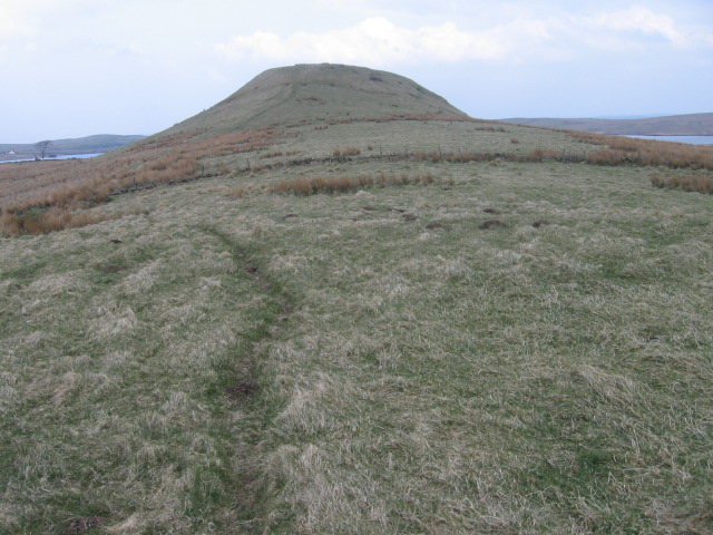 Dunwan Hill Fort